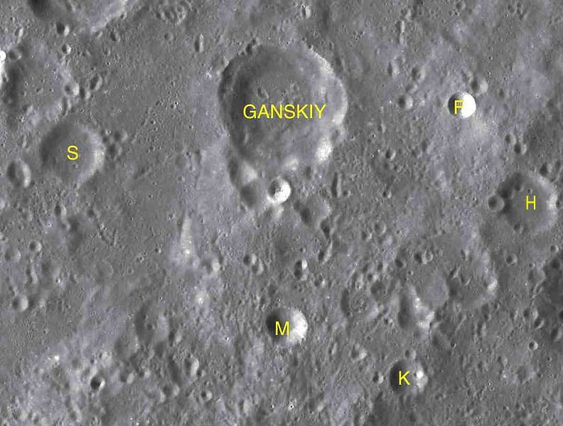 Part of the chart LAC-82 used for the presentation